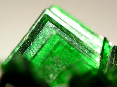 Metatorbernite Locality: Musonoi Mine, Kolwezi, Western area, Katanga Copper Crescent, Katanga (Shaba), Democratic Republic of Congo (Zaïre) (Locality at ) Size: thumbnail, 2.9 x 2.9 x 2.2 cm Metatorbernite The deep-green wulfenite-like form of these torbernites makes them one of the most eye-catching of minerals. This specimen has the classic deep green color, superb form, excellent clarity, and beautiful luster that represents the unchallenged FINEST OF SPECIES from a particular series of finds now some 20-25 years ago. The overall balance and aesthetics are terrific, making this a killer competition-level miniature by any standard. It is complete all around, too. OLD FIND - NOT FOUND IN THIS QUALITY SINCE! 2.9 x 2.9 x 2.2 cm